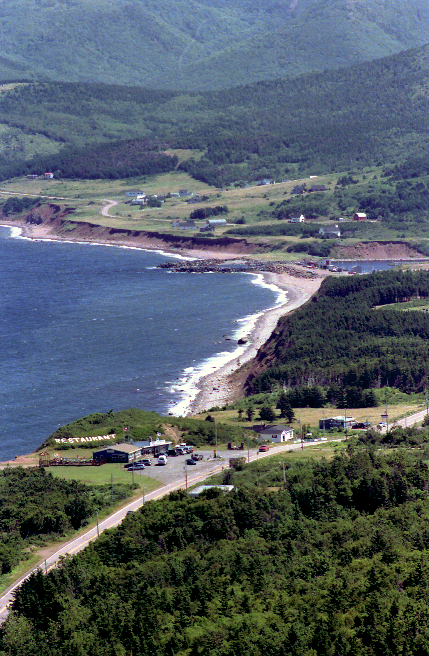 Cabot Trail, Nova Scotia, Canada. Taken by myself, clngre, July 2006.